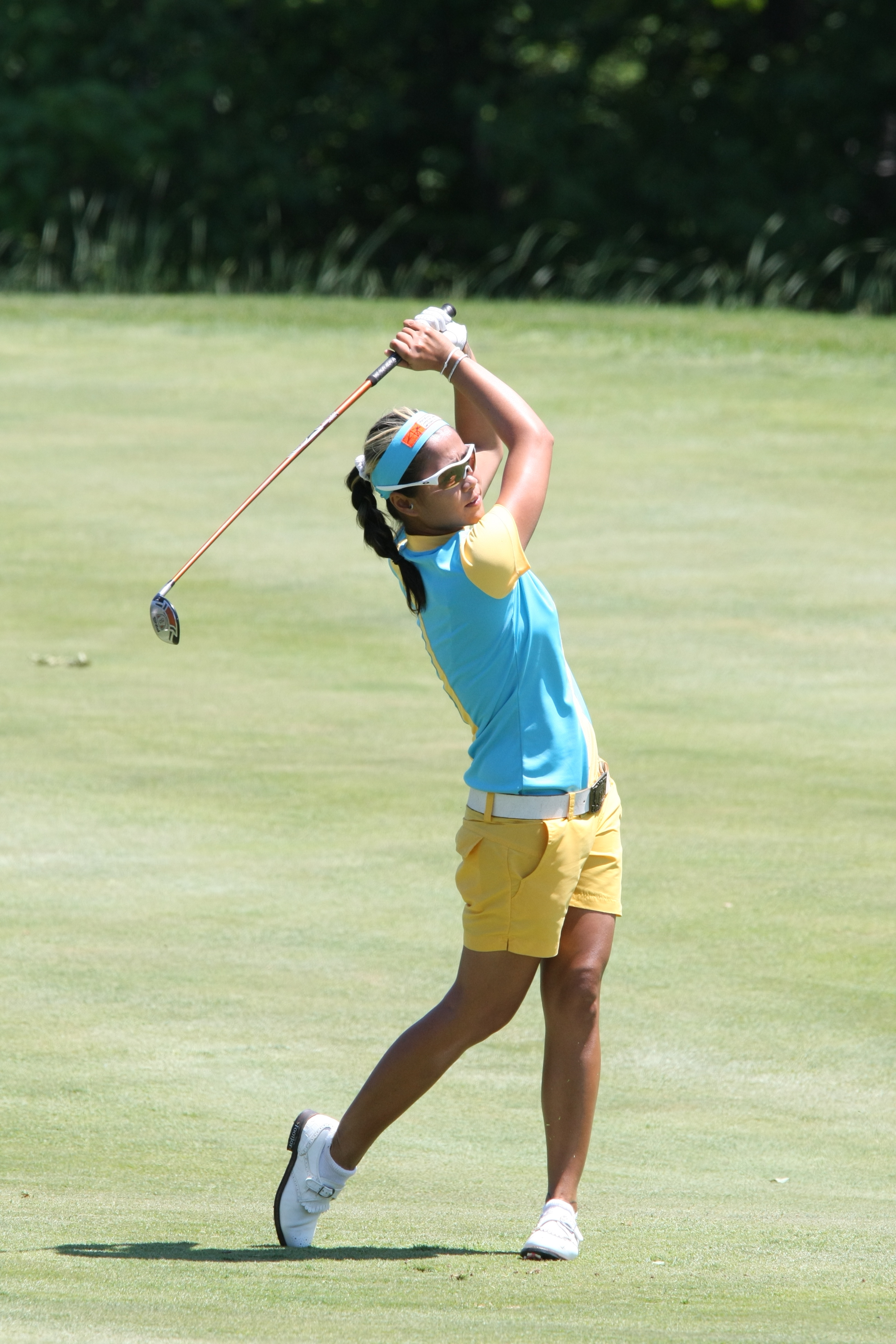 HAVRE DE GRACE, MD - JUNE 02: Jennifer Rosales (PHI) during pro-am before 2008 LPGA Championship held at Bulle Rock Golf Course, on June 2, 2008 in Havre de Grace, Maryland. (Photo by Keith Allison)